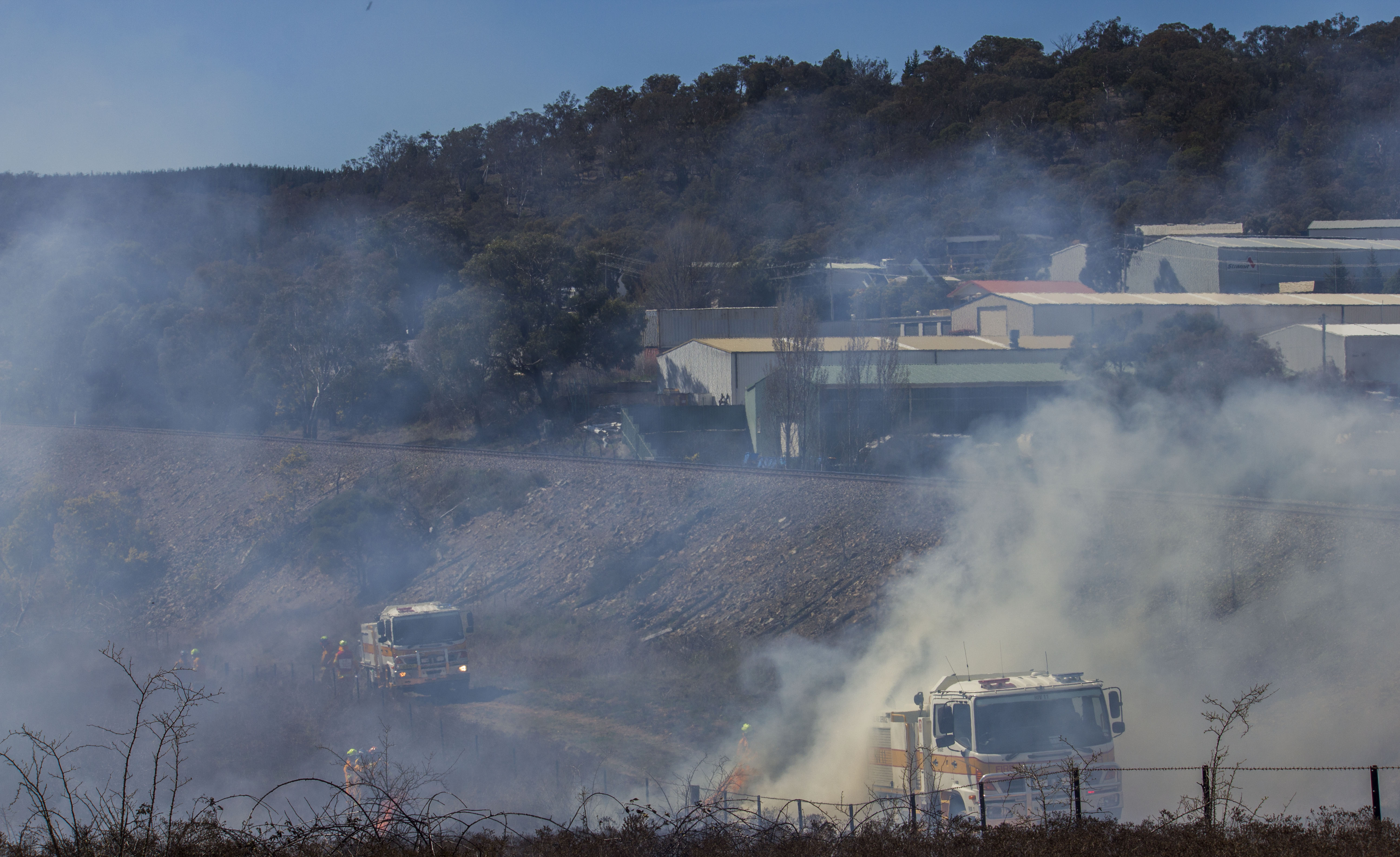 Incident Controller monitoring Hazard Reduction September 2013